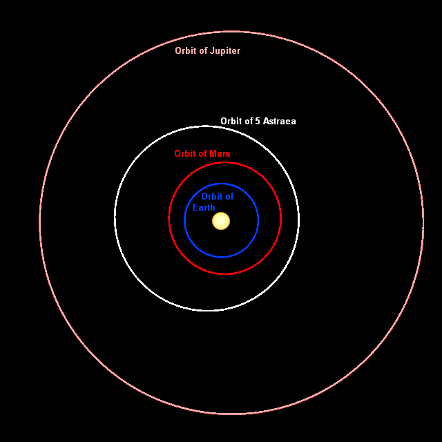 The orbit of the asteroid 5 Astraea compared with the orbits of Earth, Mars and Jupiter Беларуская (тарашкевіца): Арбіта Астрэі ў параўнаньні з арбітамі Зямлі, Марса і Юпітэра